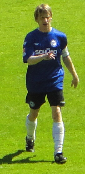 Rüdiger Kauf, former german football player, in the jersey of Arminia Bielefeld in 2011.Unknown